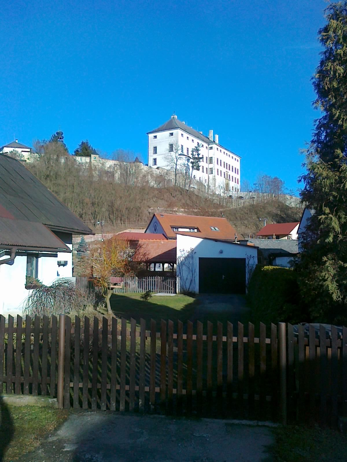 Castle view